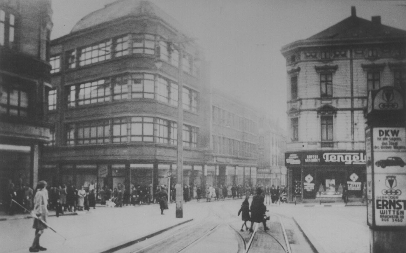 Bahnhofstraße in Witten